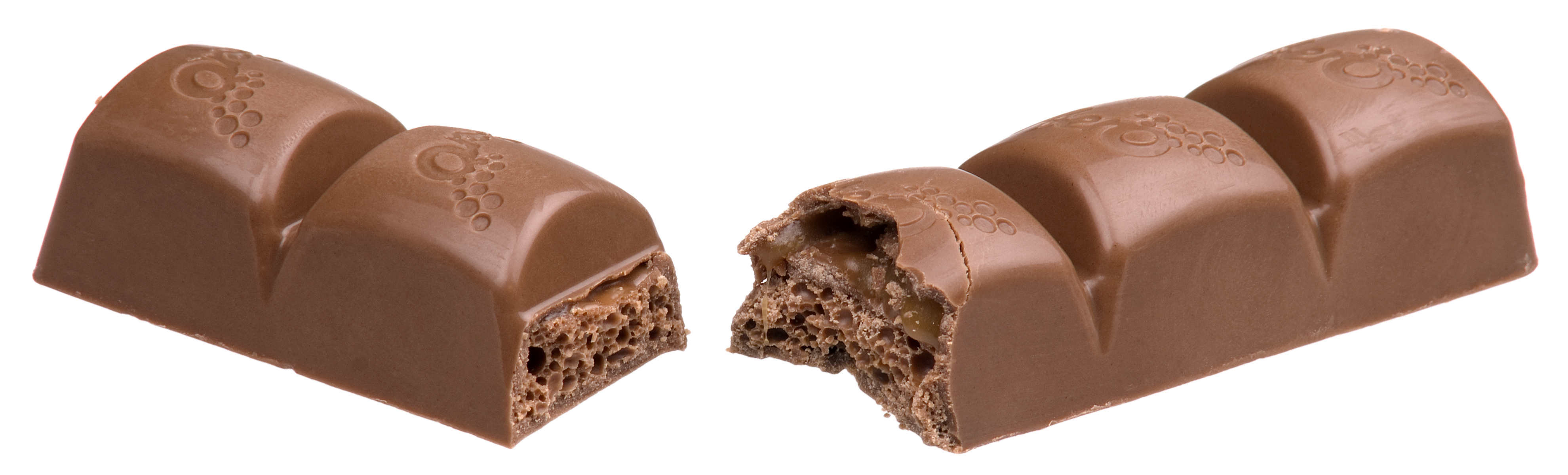 A Nestle Aero Caramel candy bar split in half.